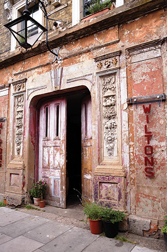 The Front Door of Wilton's Music Hall, 2010. Photograph by James Perry.